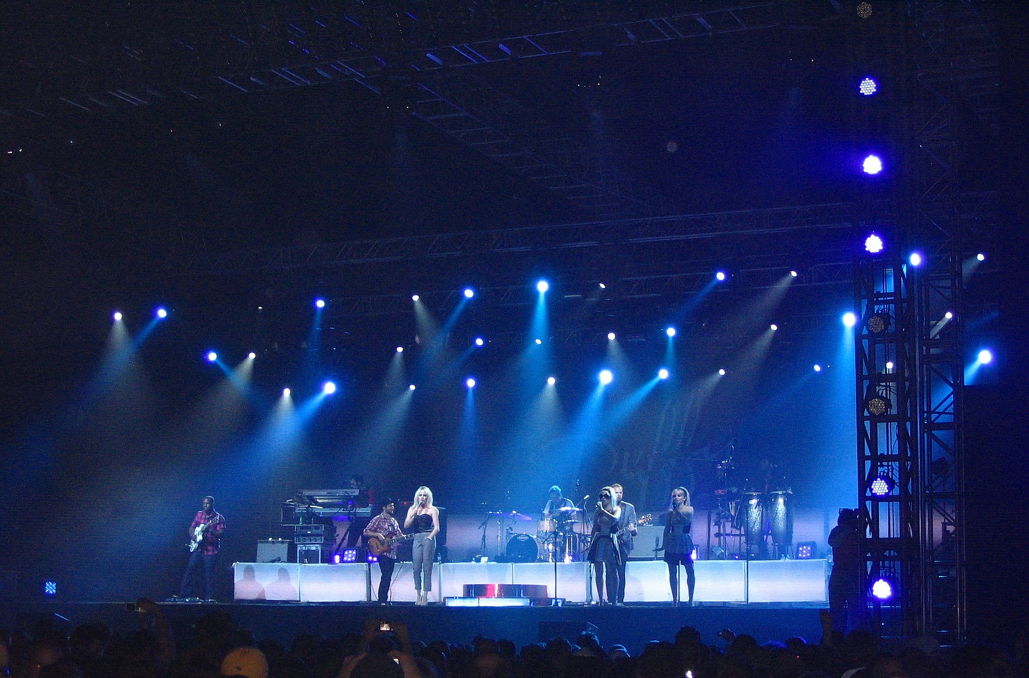 Duffy at Heineken Open'er Festival 2009